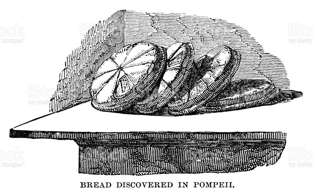 Bread discovered in Pompeii - Scanned 1832 Engraving